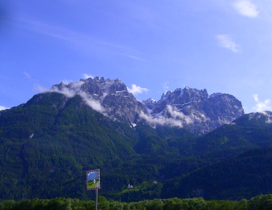 Mountains from the Lienzer Dolomiten, in the upmost Pustertal in East Tyrol, which is in Austria, not South Tyrol!